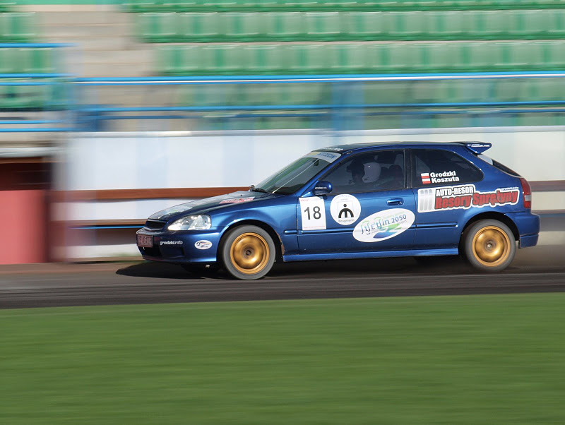 Grodzki Rally Team - Rally Brugmann 2009